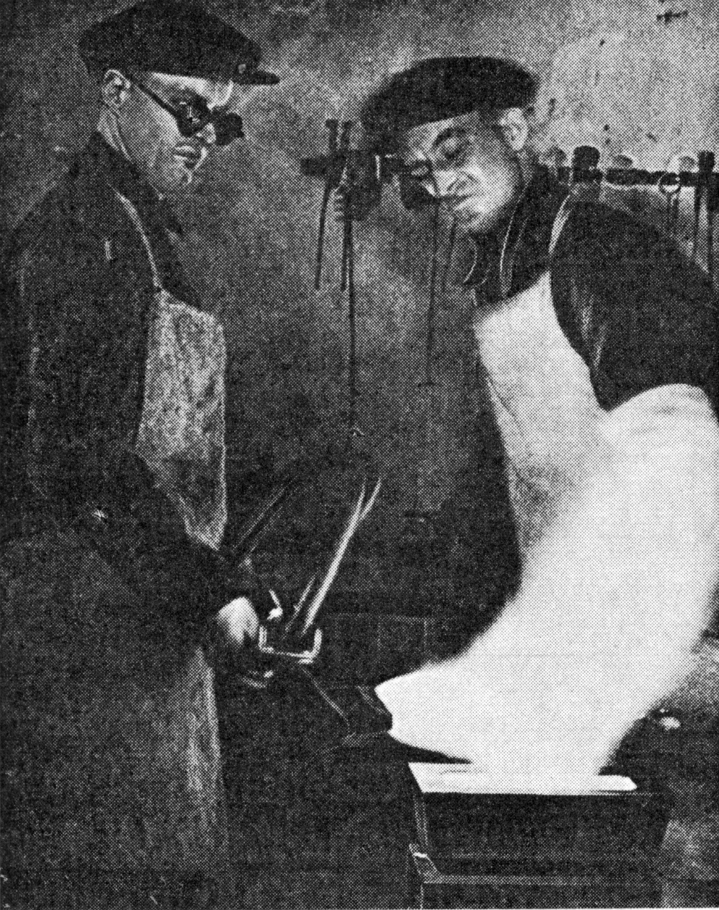 Melted gold is poured into a melting-pot at Boliden mining and smelting company in Rönnskär, Sweden.